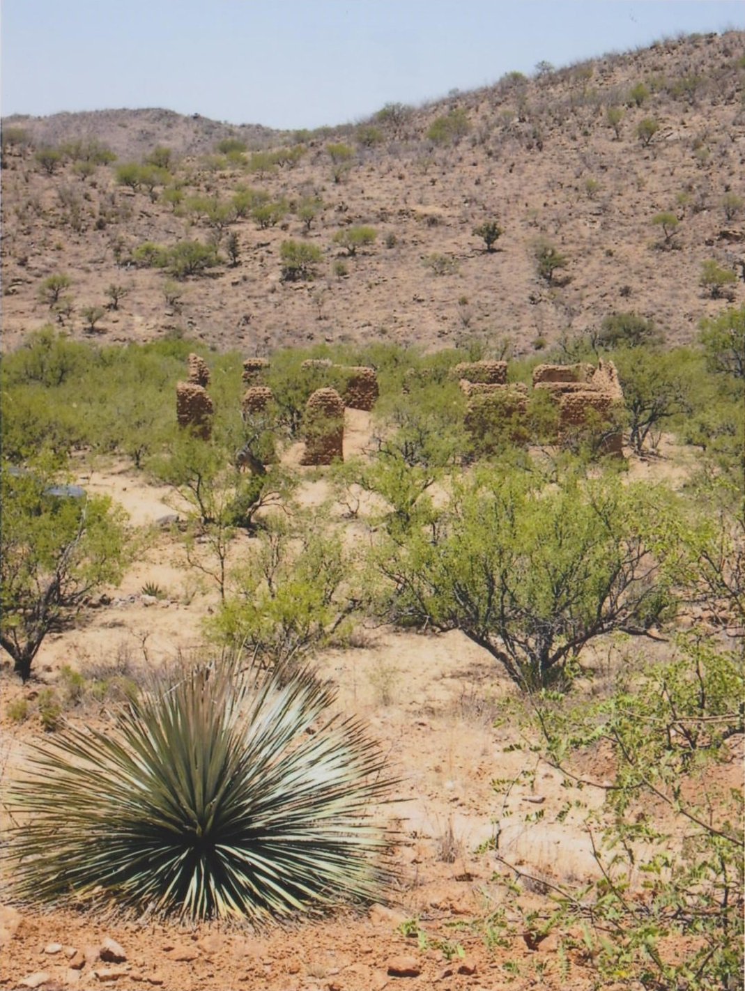 The adobe ruins of the Josiah Bond house in the ghost town of Alto, Arizona. One room of the house was used as a local post office between 1907 and 1933.